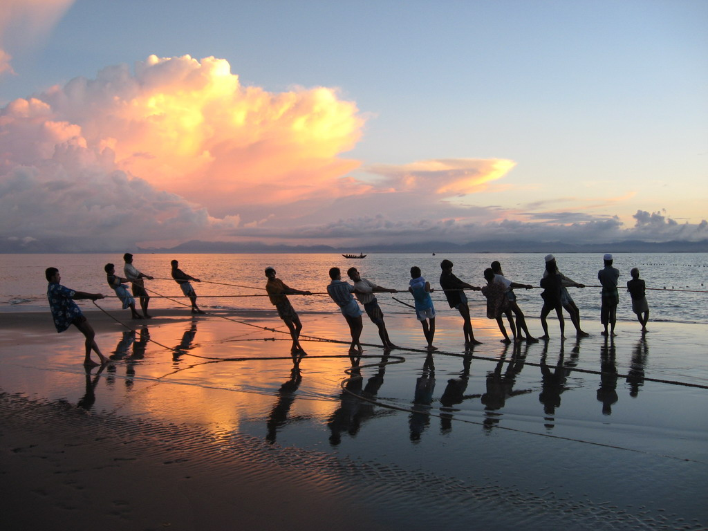 Sunrise, Saint Martin Island, Bangladesh.